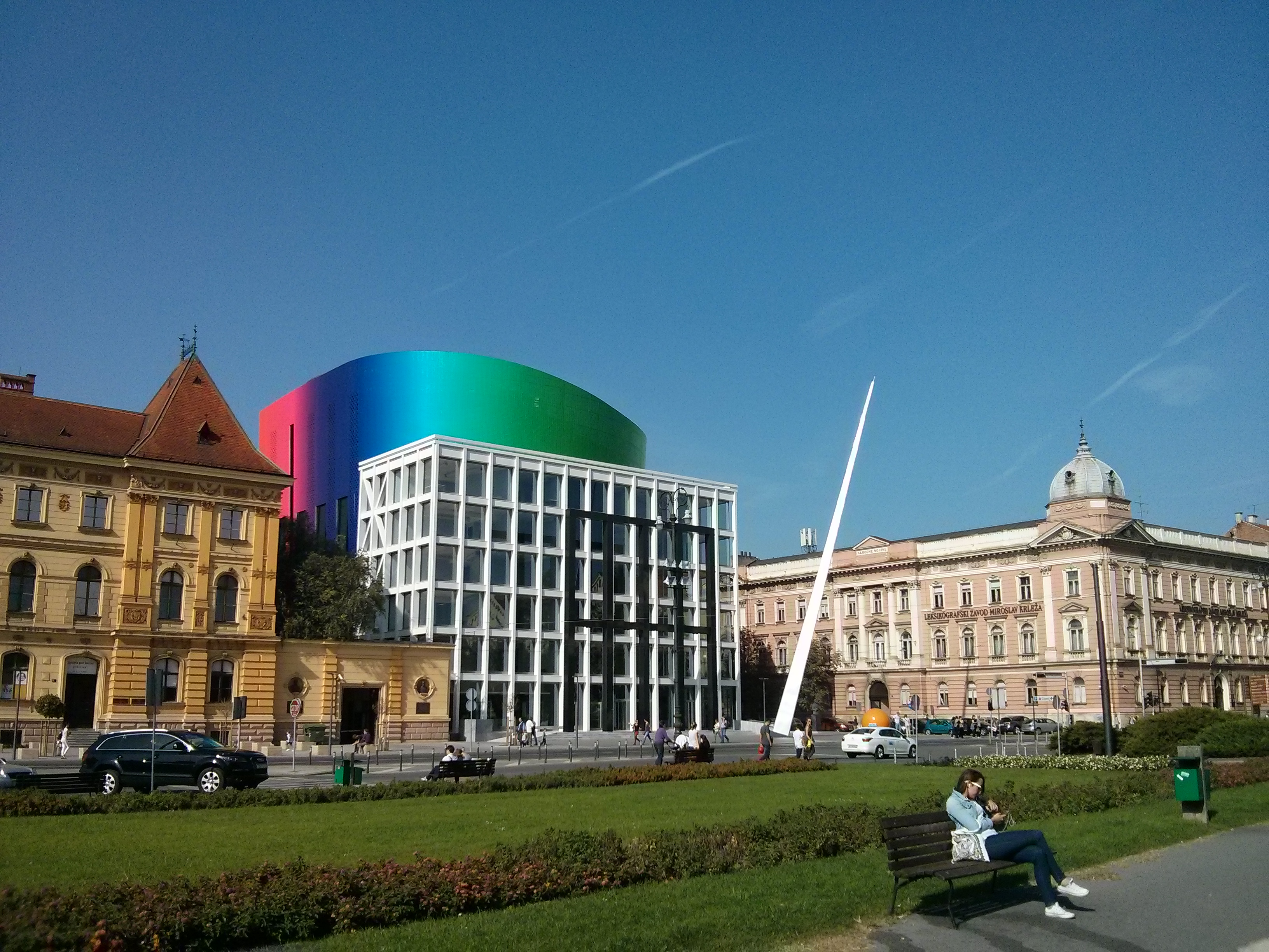 Academy of Music, University of Zagreb, landscape